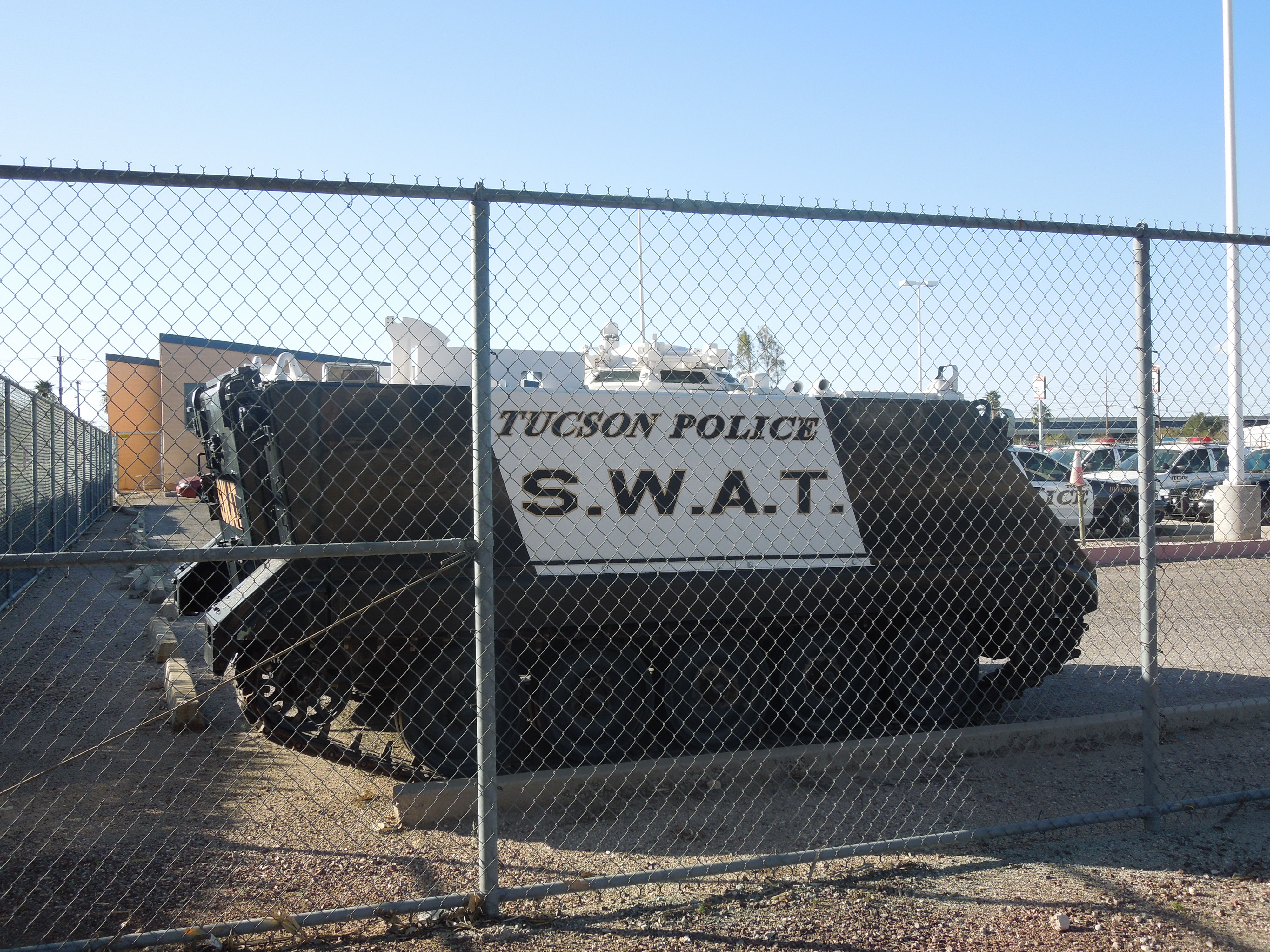 Tucson Police SWAT vehicle